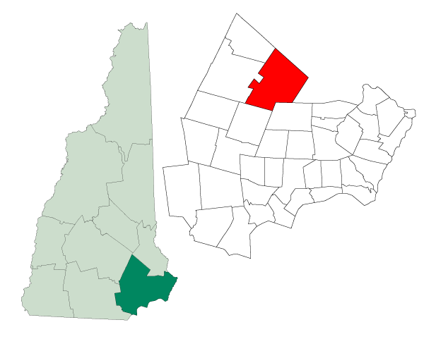 Map of a municipality in Rockingham County, New Hampshire